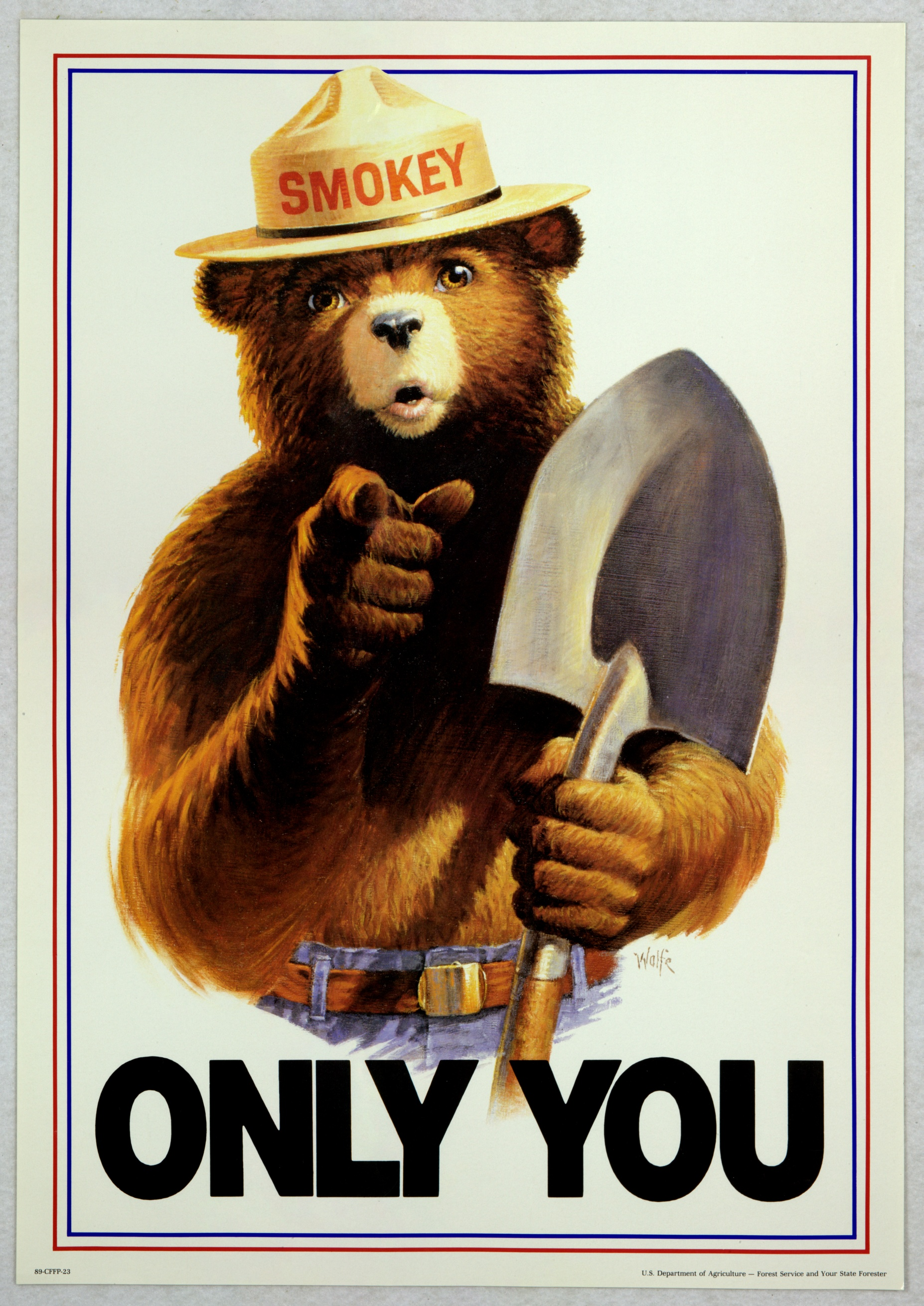 1989; Smokey Bear poster showing a half body image of Smokey pointing at the audience with one hand while holding a shovel in the other hand. Poster reads "Only You". This work is maintained in the National Agricultural Library, in Beltsville, MD.